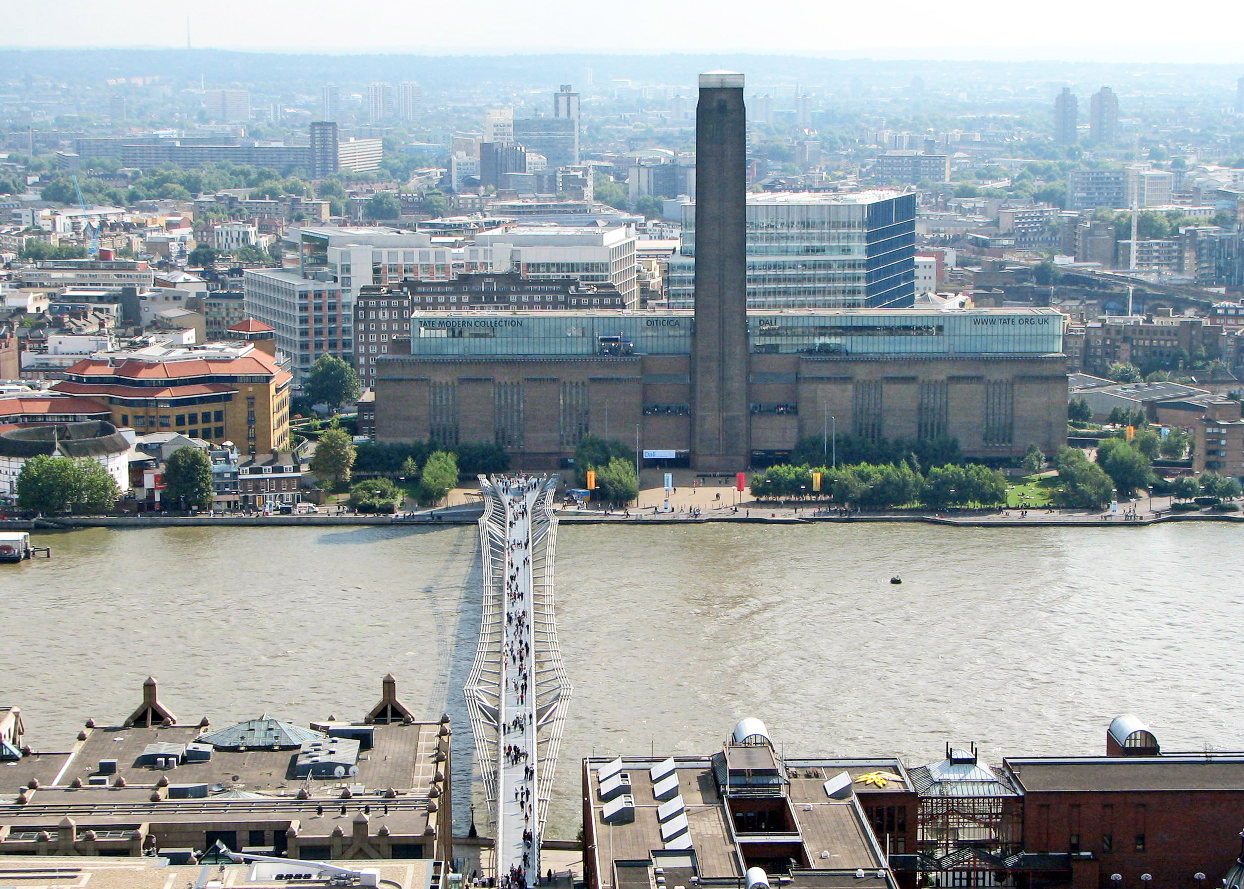 Great Tate Modern gallery and the Millennium Bridge, London, England